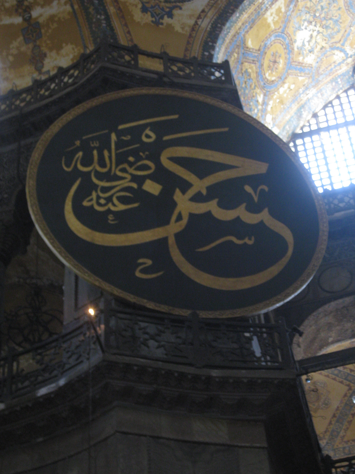 Name of Hasan in Arabic in Hagia Sophia, April 2013